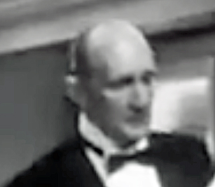 Robert F. Simon in trailer for "Never Say Goodbye" (1956)